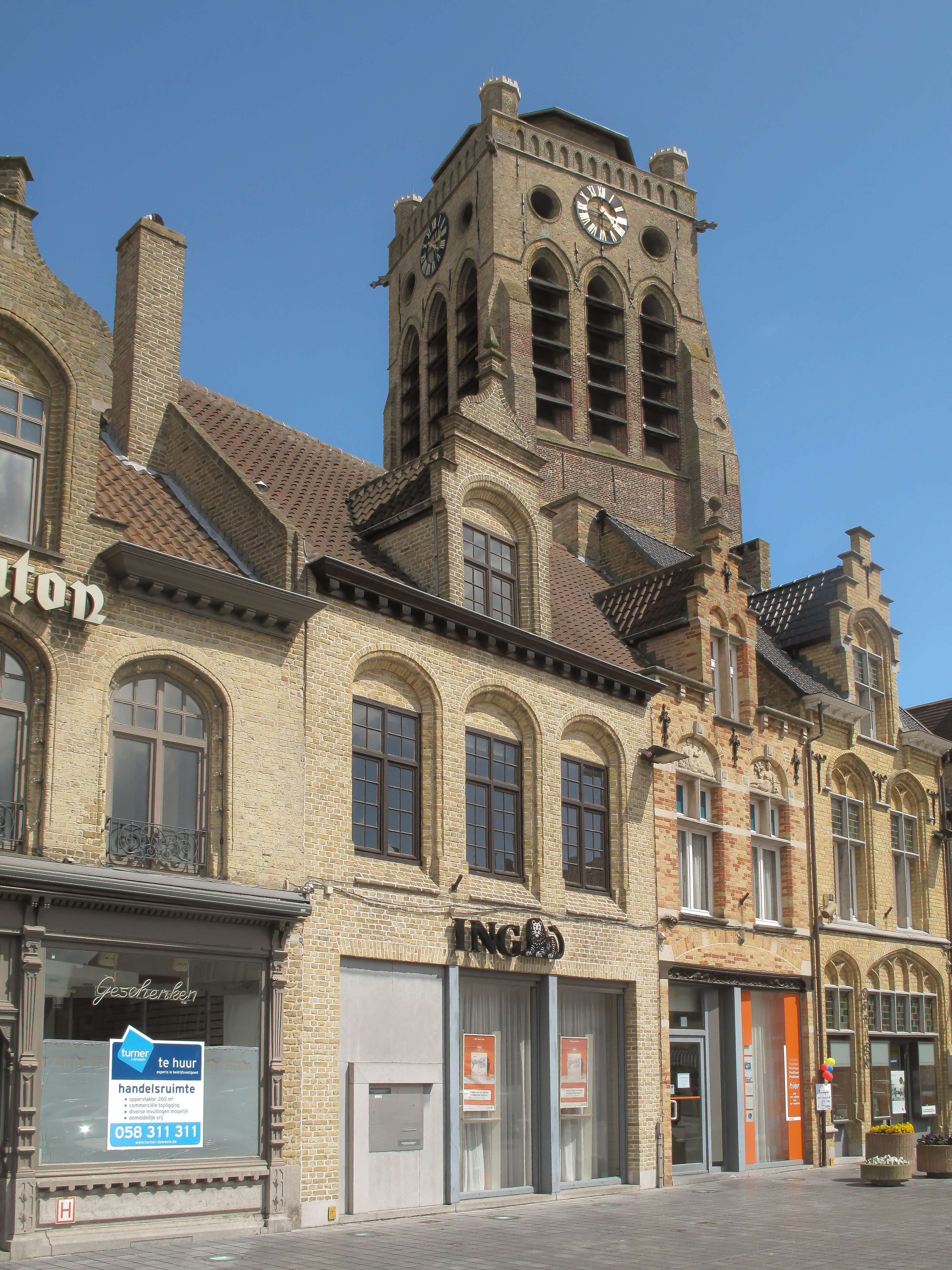 Veurne, church: parochiekerk Sint Niklaas